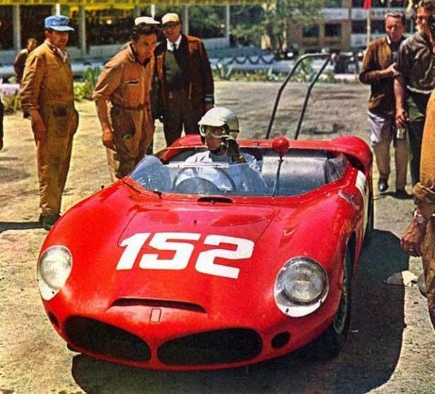 Entry #152, the 1961 Ferrari 246 SP s/n 0796 won Targa Florio on 6 May 1962. Three drivers may have been in the car: Willy Mairesse, Ricardo Rodriguez or Olivier Gendebien.[1] Location of this picture: Unknown.